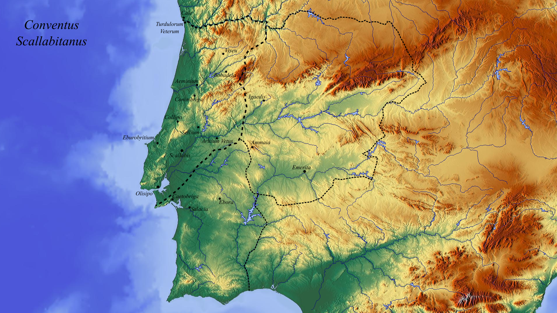 Own Work. The relief base map was taken from , itself derived from OpenStreetMap A very broad interpretation of the borders of Conventus Scallabitanus, according to Amílcar Guerra. The boundaries of Conventus Pacensis and Emeritensis were based on the interpretation (with some changes) of - TRANOY, A.; SILLIÈRES, P.; SALINAS de FRÍAS, M.; MANTAS V.G.; GORGES, J.G.; ALARCÃO, J. (1990) – Propositions pour un nouveau tracé des limites anciennes de la Lusitanie romaine. In Les villes de Lusitanie romaine: hierarchies et territoires, table ronde internationale du CNRS. Paris, Centre National de la Recherche Scientifique. P. 319-329.